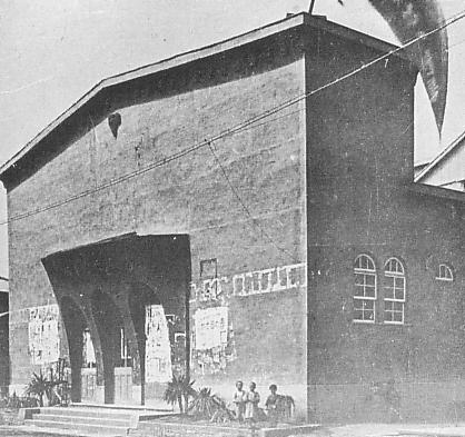 Tsukiji Little Theater